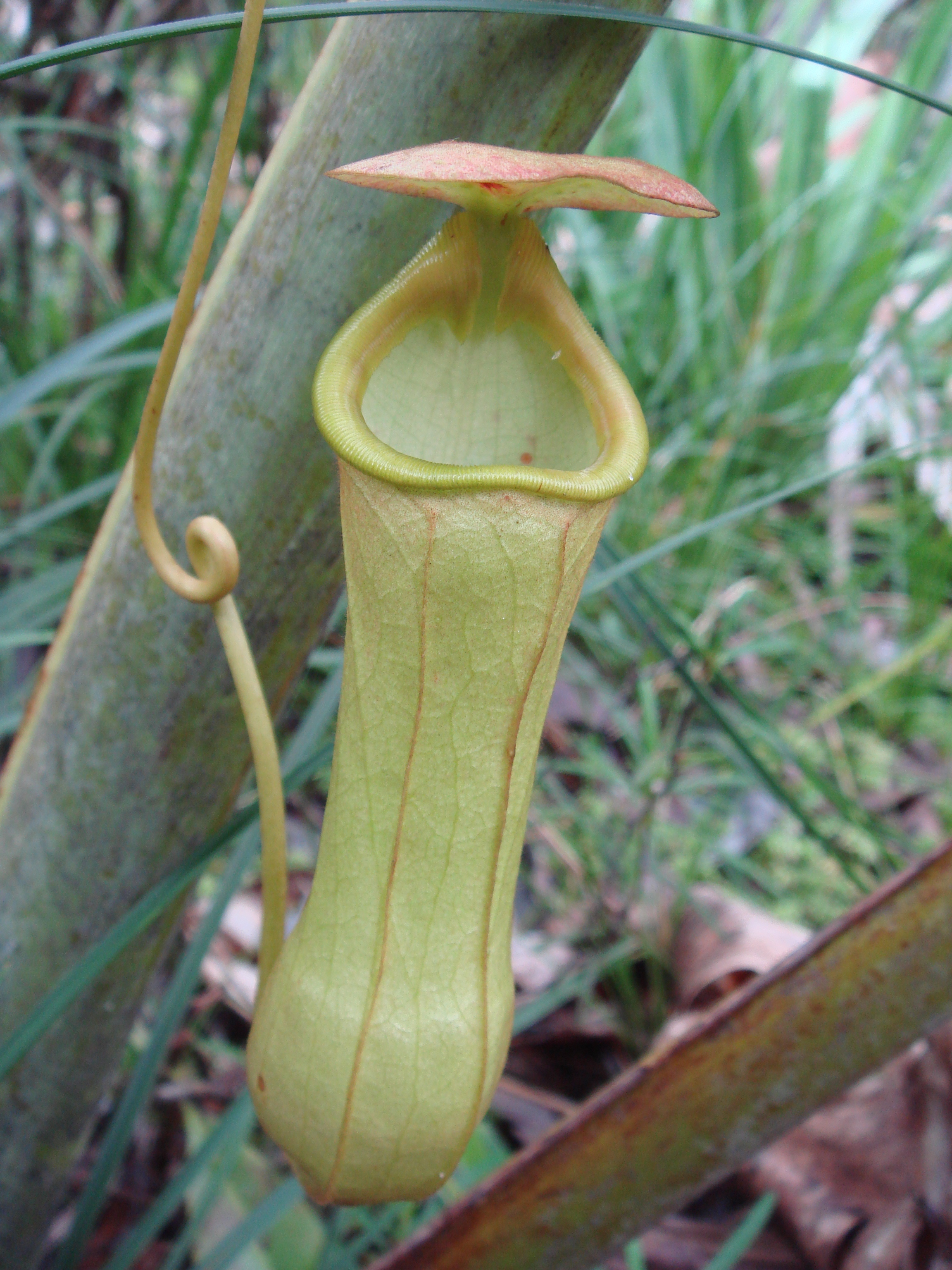 Nepenthes madagascariensis, a carnivorous plant.